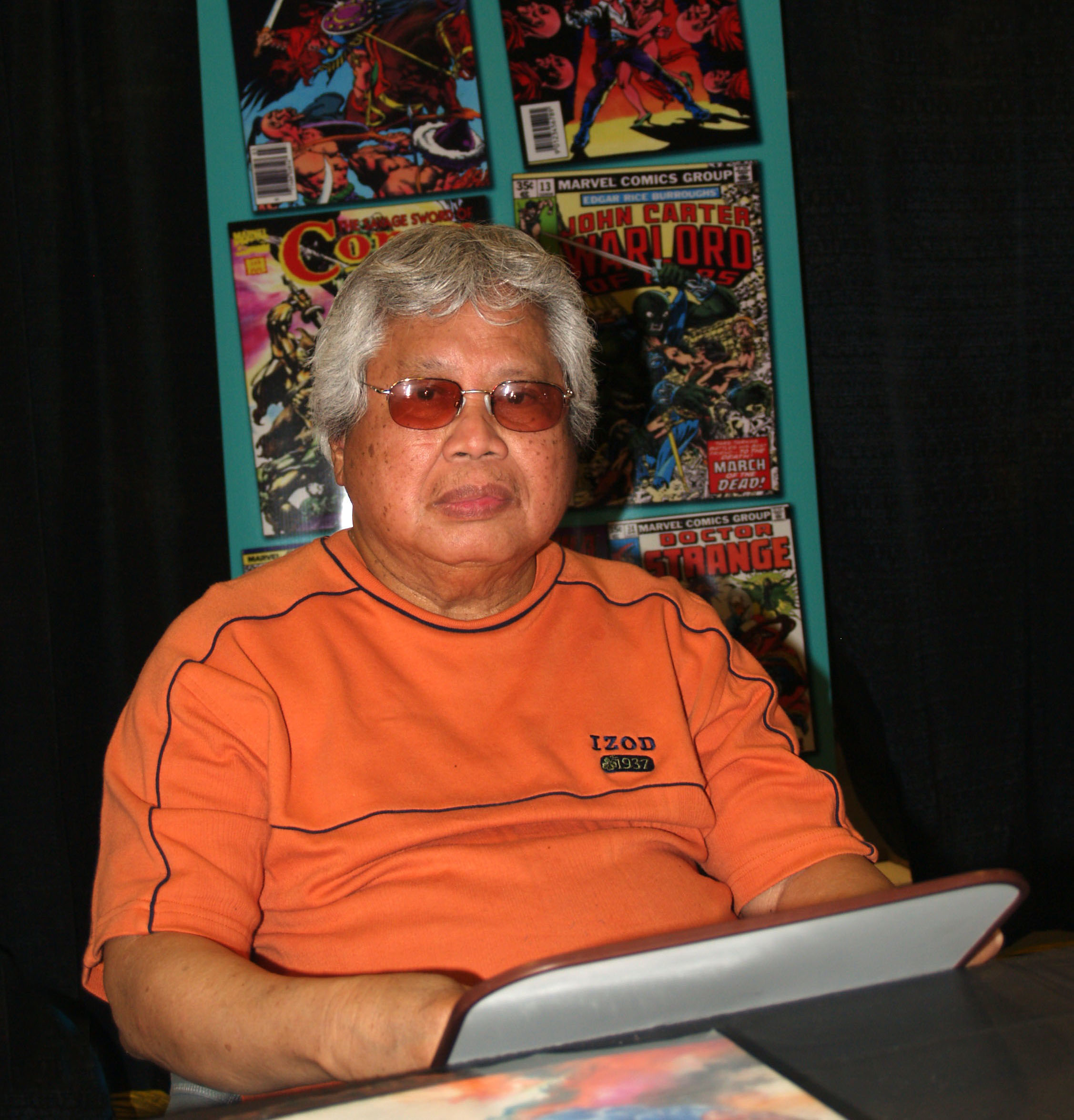 Comics artist Rudy Nebres at the Meadowlands Exposition Center in Secaucus, New Jersey on April 11, 2015, Day 1 of the 2015 East Coast Comicon. This photo was created by Luigi Novi. It is not in the public domain, and use of this file outside of the licensing terms is a copyright violation.